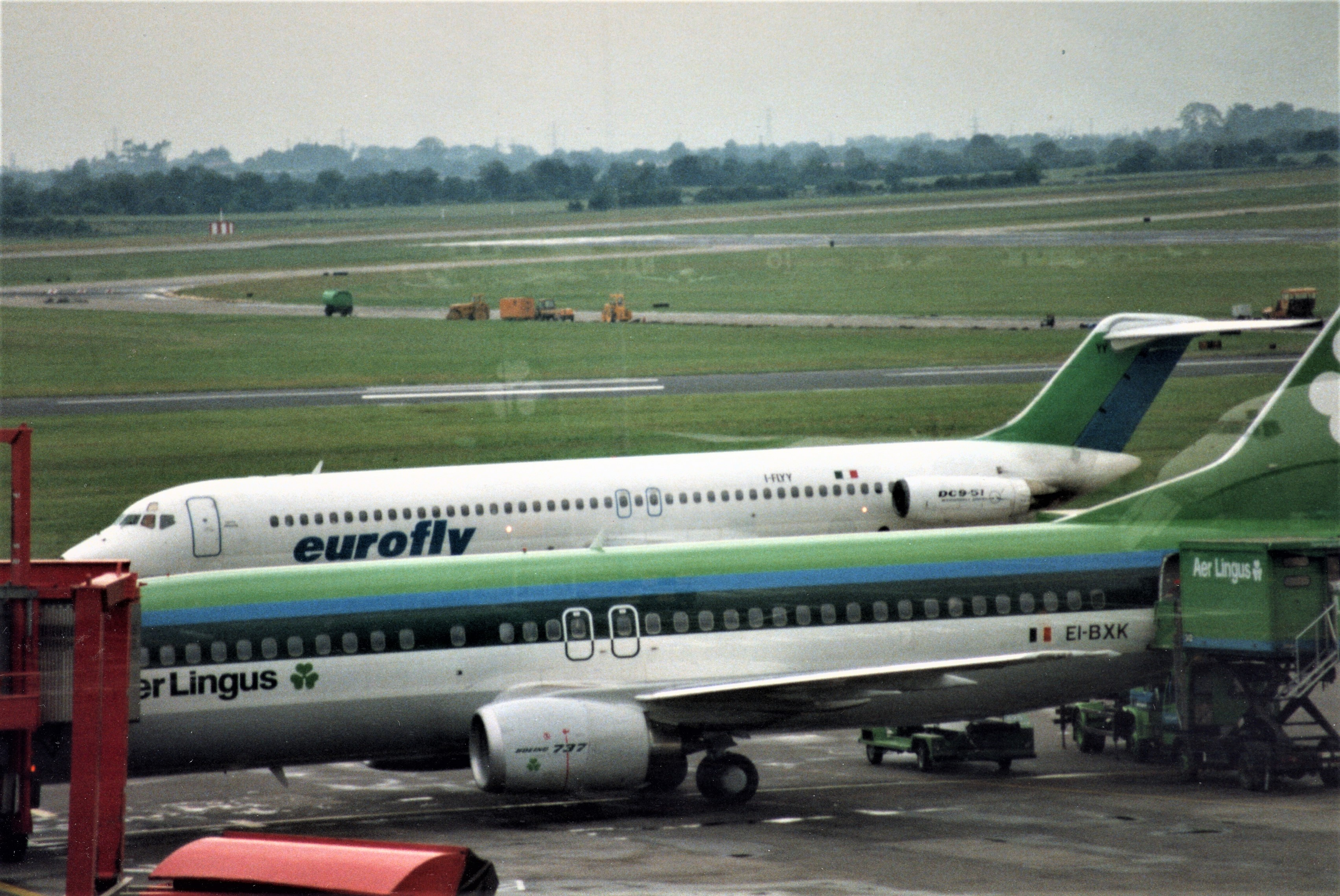 Eurofly (I-FLYY) Douglas DC-9-51 aircraft and Aer Lingus (EI-BXK) Boeing 737-400 aircraft, Dublin Airport, Dublin, Republic of Ireland, July 1992